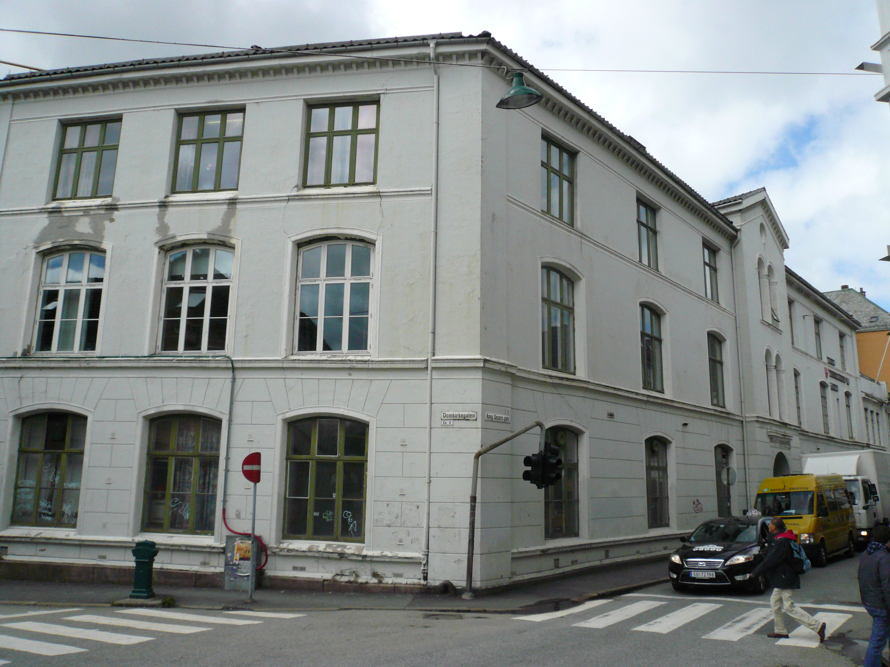 Hans Tanks skole, Kong Oscars gate 21, Bergen, Norway. Architect: Hans Hansen Kaas.